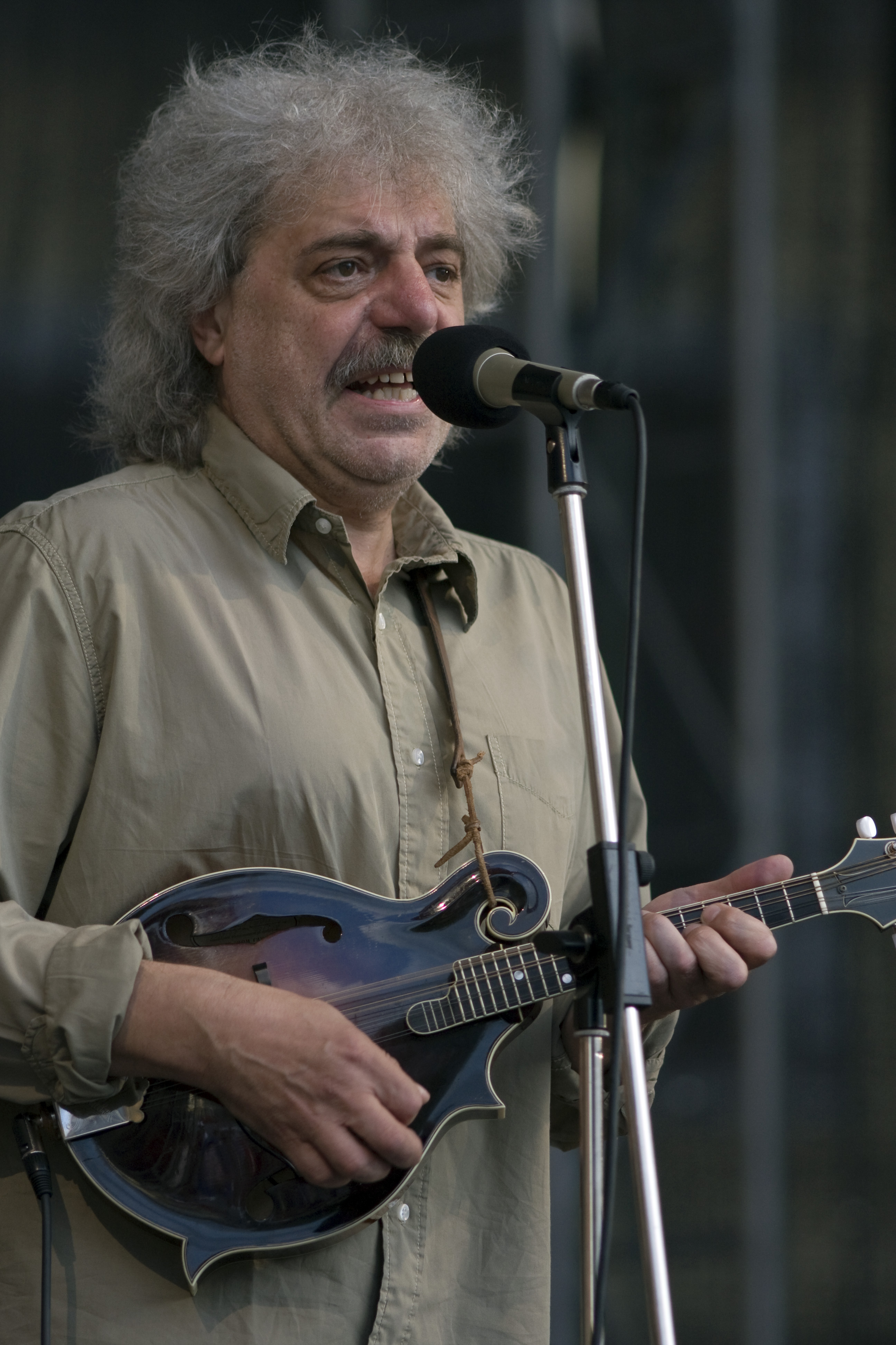 Robert Křesťan, famous czech writer, here playing mandolin and singing with czech bluegrass band Druhá Tráva.